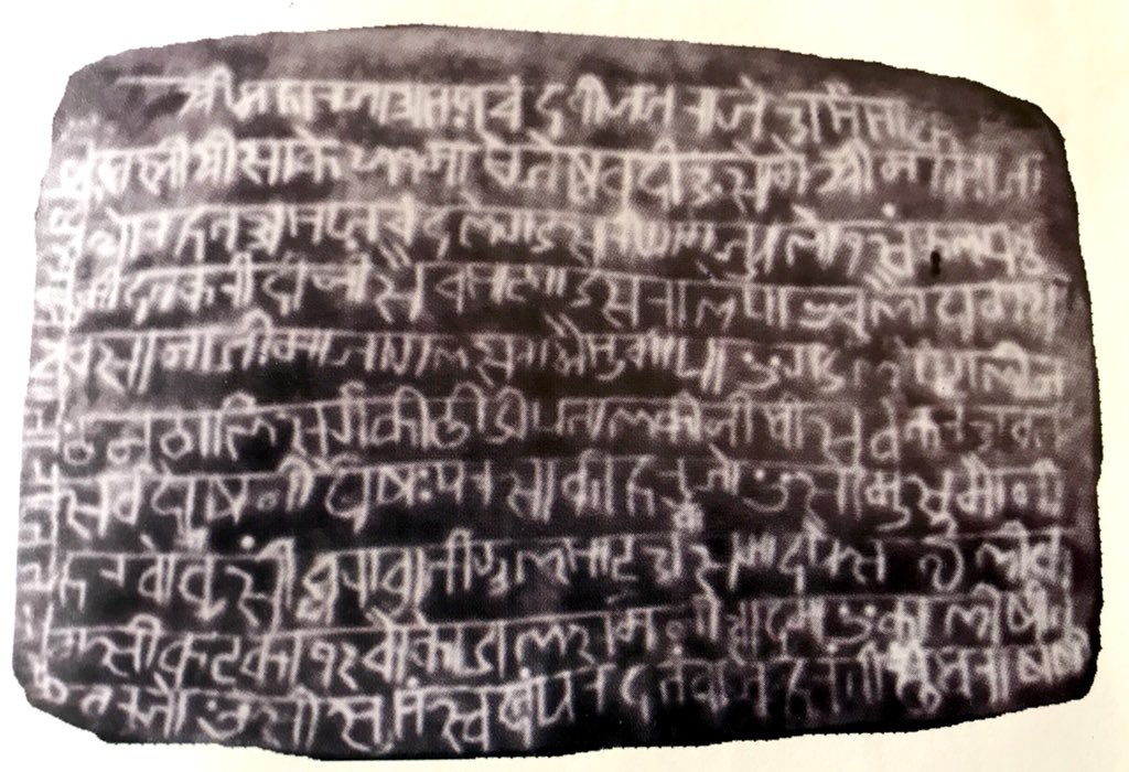 kumaoni language on old copper inscription(found in almora district of kumaon region, india) of 989CE. kumaoni language written using Devanagari script